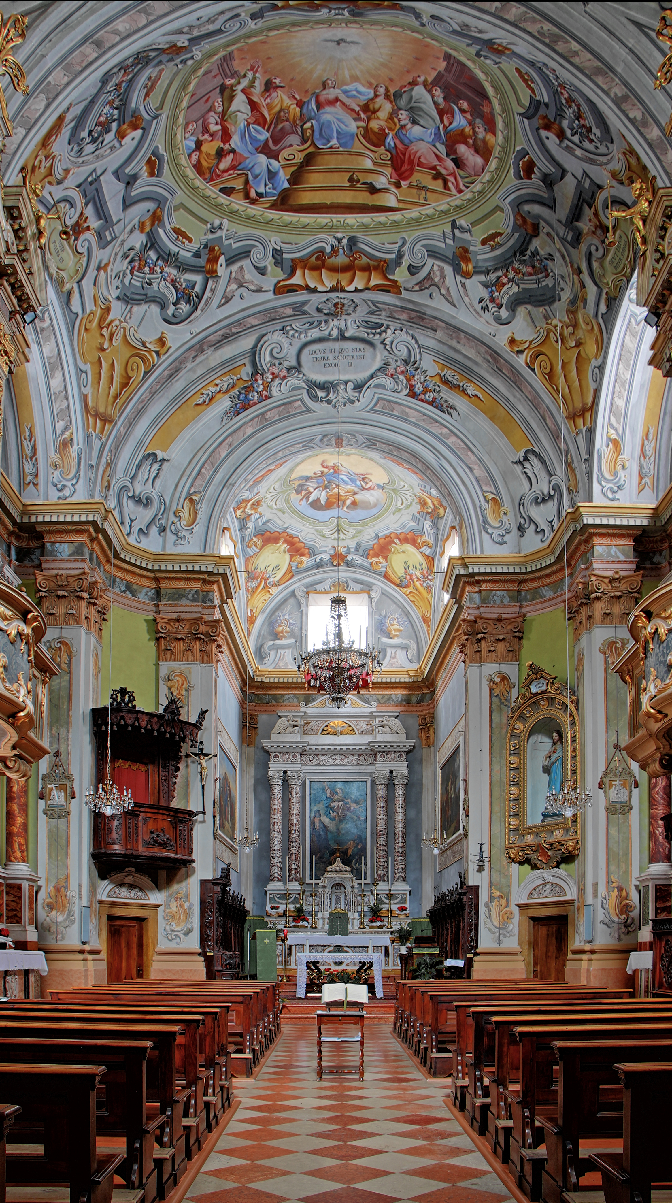 Interior of the Chiesa di San Bartholomeo, Vesio di Tremosine, Brescia, Lombardy, Italy. The paintings are by Gian Domenico Cignaroli.